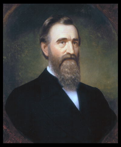 Taken from Kentucky Department of Libraries and Archives web site